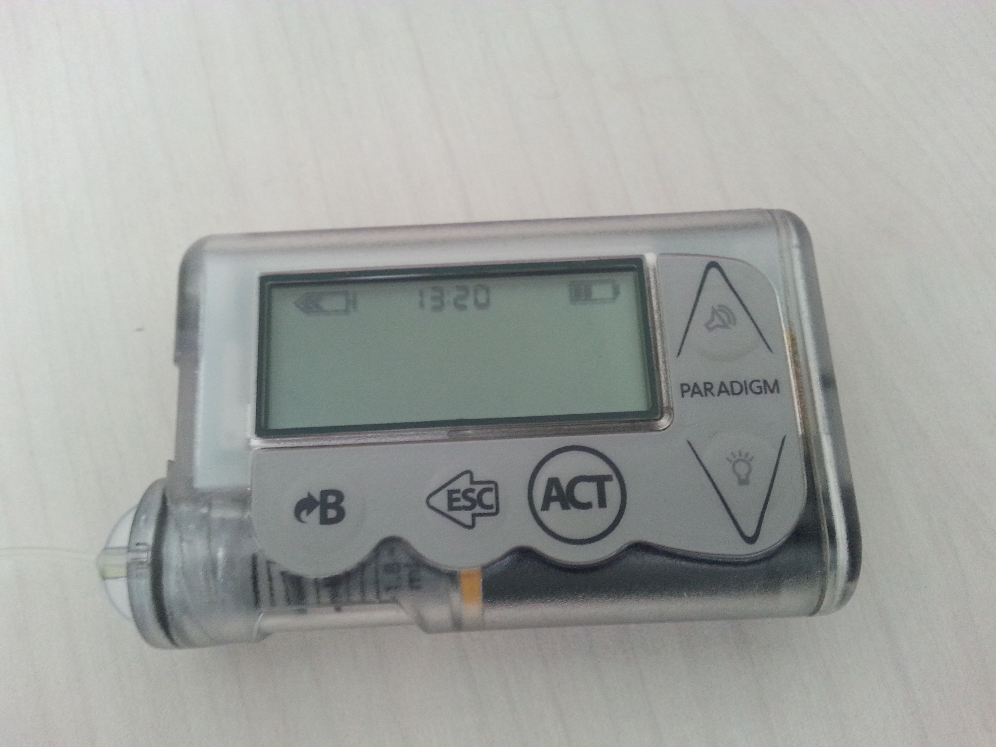 Insulin pump